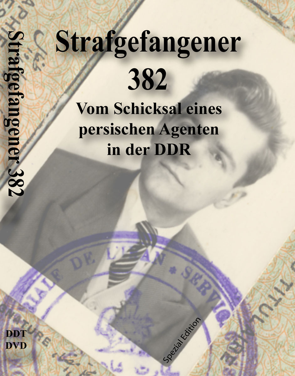 DVD Cover Strafgefangener 382 - Vom Schicksal eines persischen Agenten in der DDR